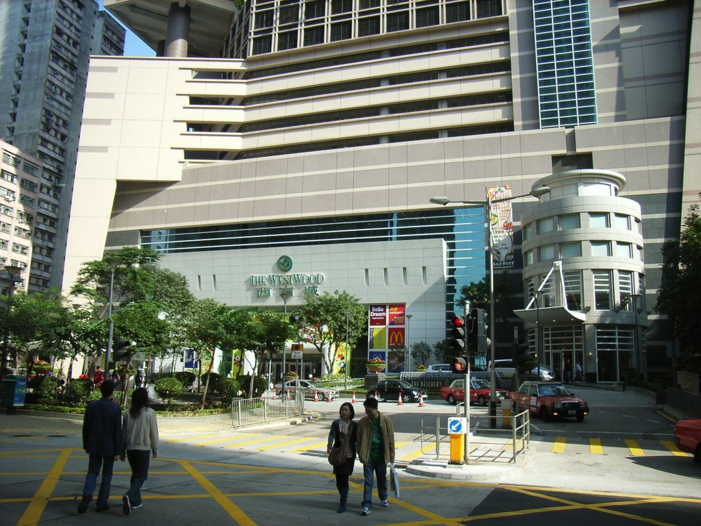 寶翠園 The Belcher's , Sai Ying Pun, Hong Kong (by West Hu).